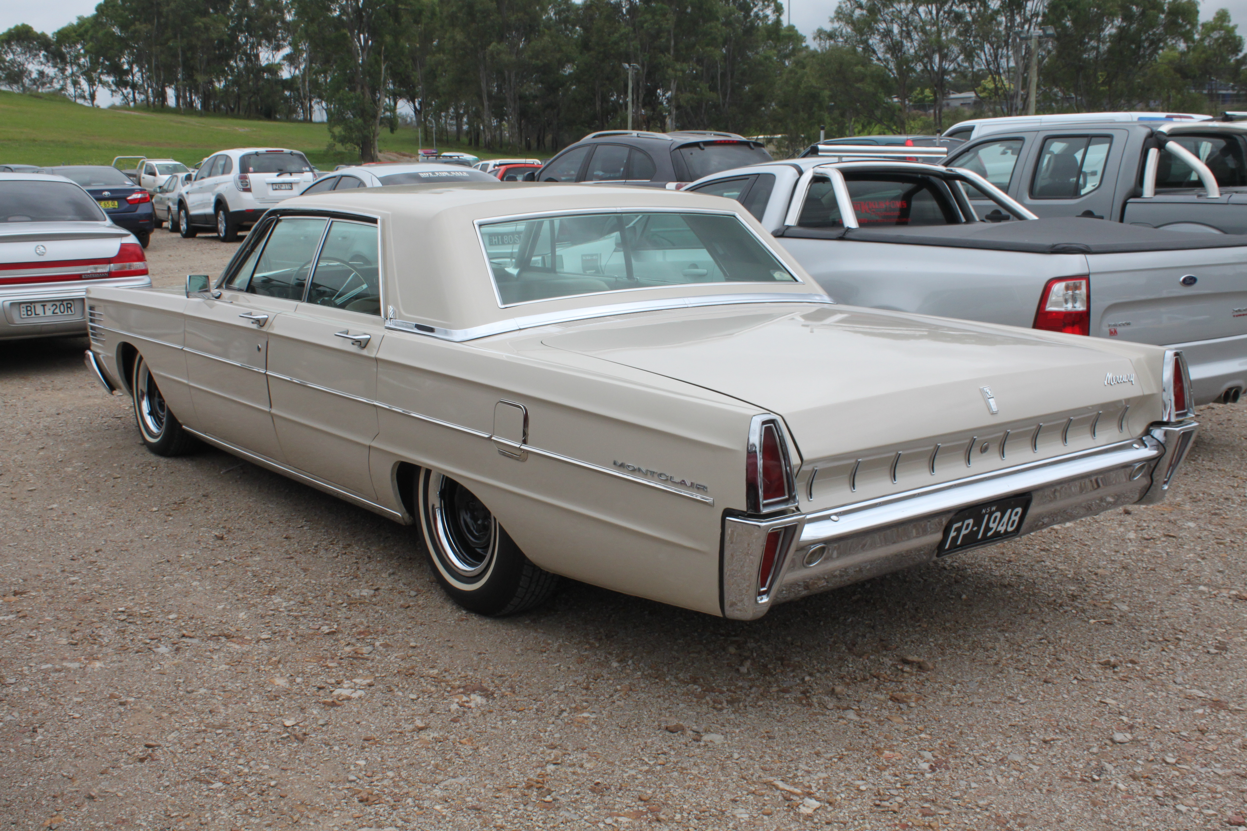 1965 Mercury Montclair Marauder